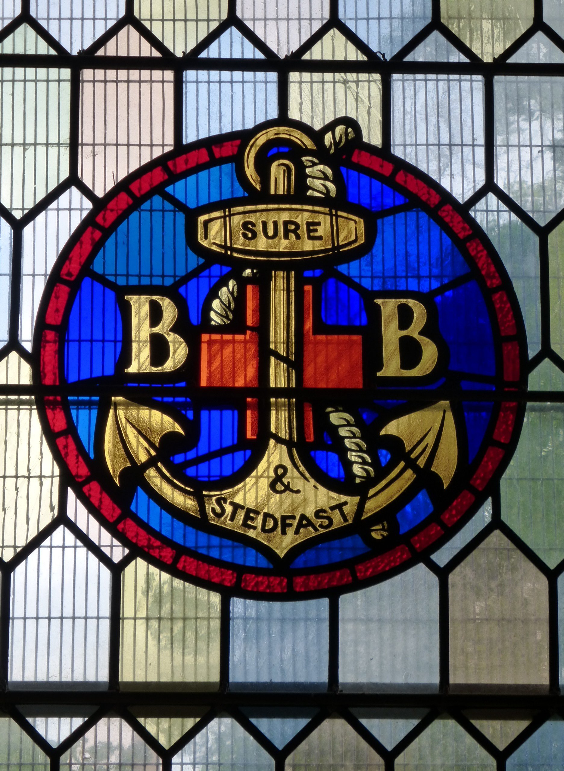 Boys' Brigade emblem on a stained glass window in Strathbrock Parish Church, Uphall, West Lothian, Scotland